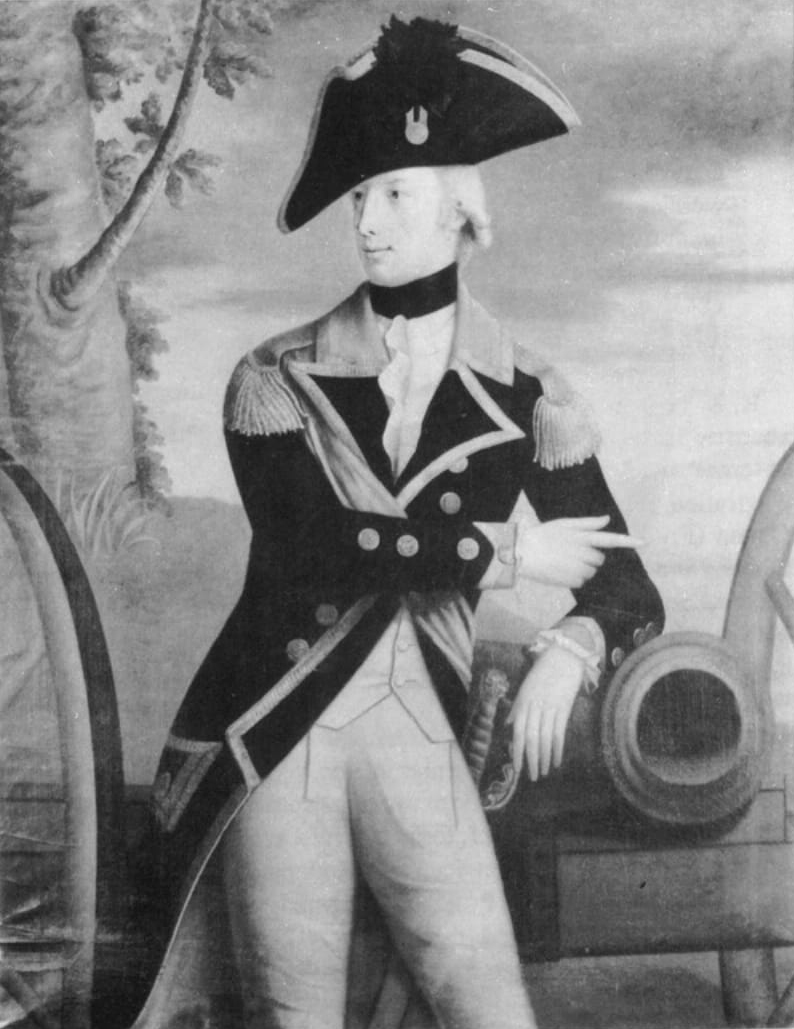 John Bateman Fitzgerald, 23rd Knight of Glin